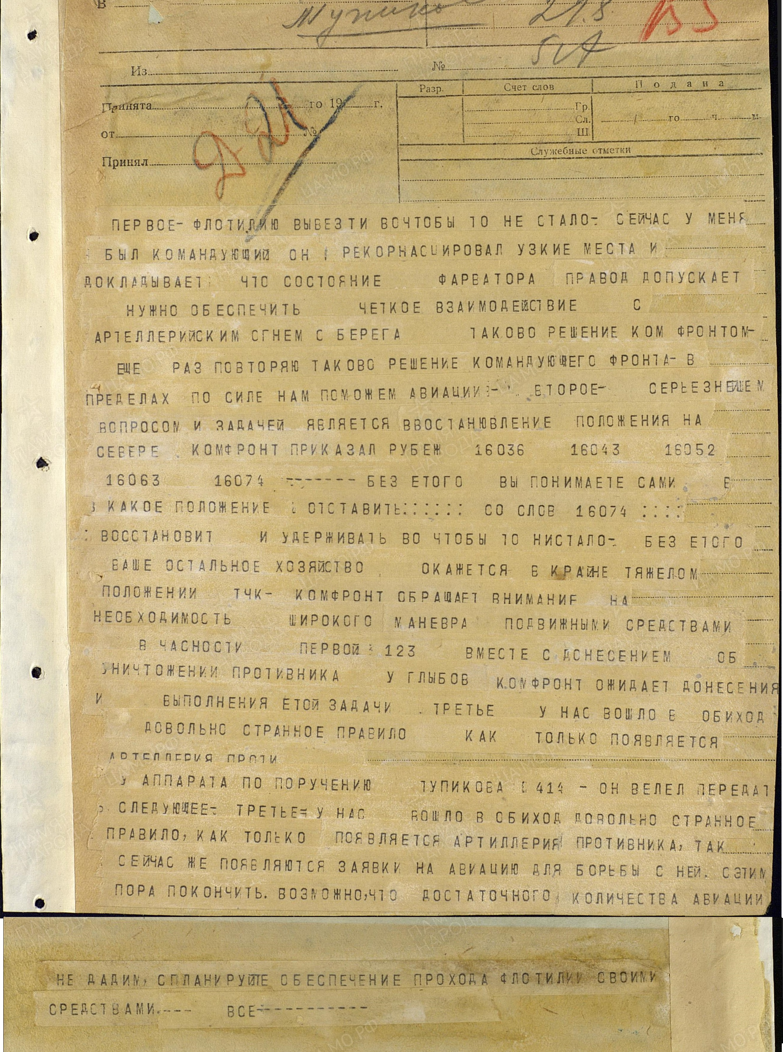 Consultations between the Soviet 5th Army and the headquarters of the South-West front from 29.08.1941 regarding the planned second breakthrough of the Soviet river warships (Pinsk flotillia) near Okuninovo towards Kiev.